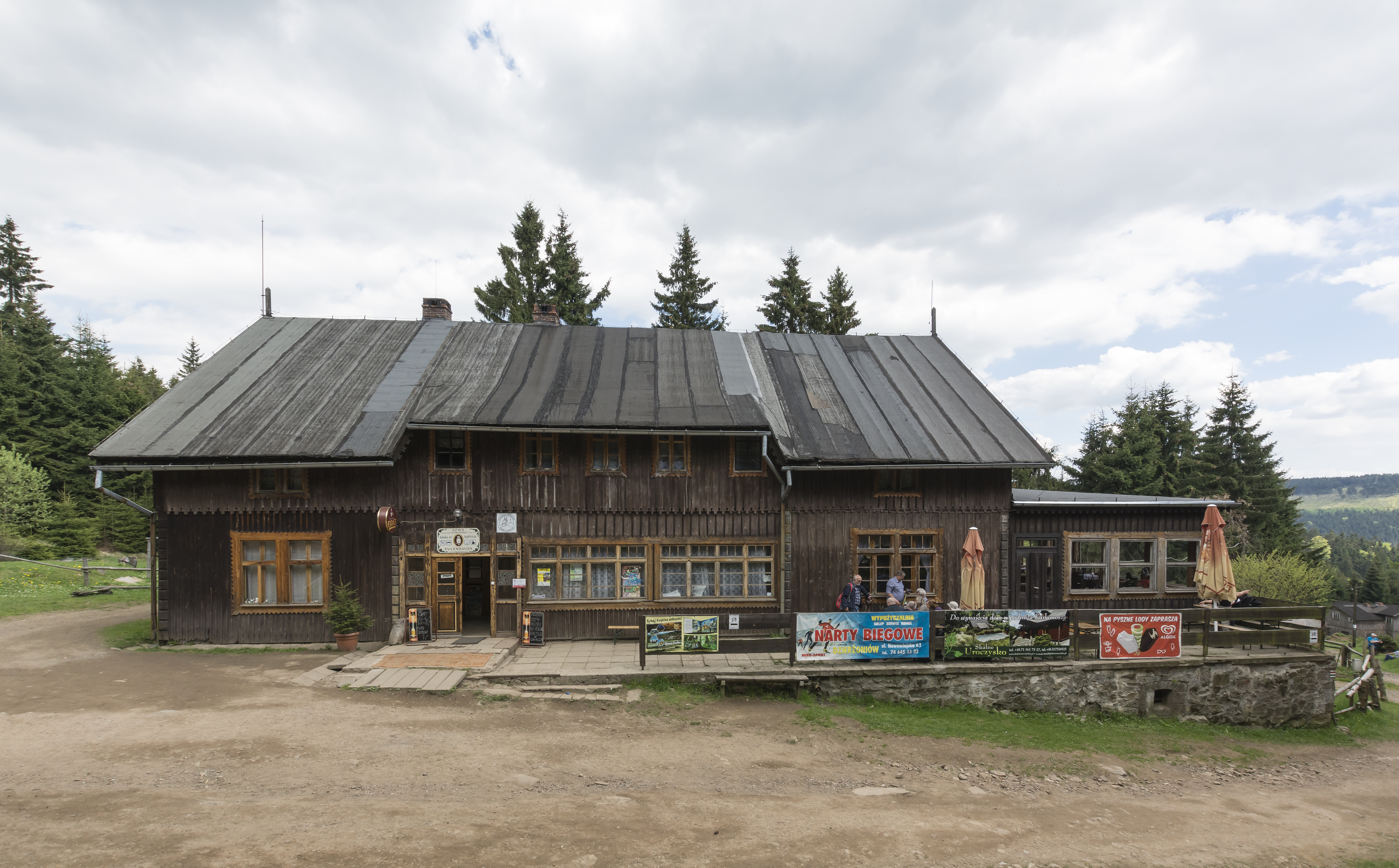 Sowa hostel, Sowie Moutains, Sudetes